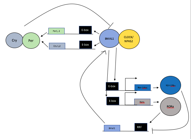 BMAL1 and CLOCK or NPAS2 for a heterodimer which activates the transription of period and cryptochrome genes. This causes the formation of the PER:CRY complex, which in turn inhibits the BMAL1:CLOCK or NPAS2 heterodimer. The BMAL1:CLOCK or NPAS2 heterodimer also drives the transcription of two nuclear orphan receptor genes, which when translated either inhibit or activate Bmal1 transcription.